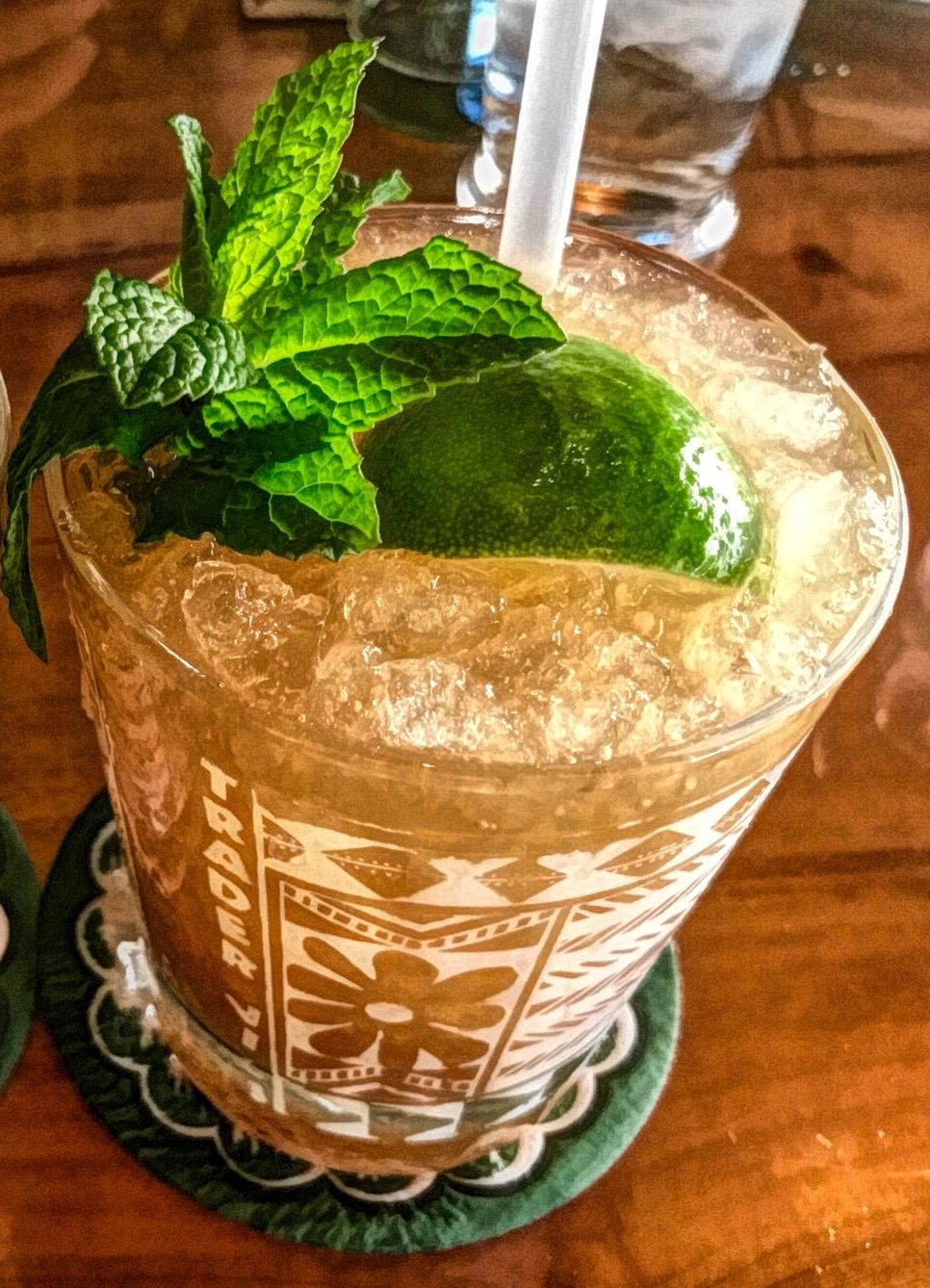 1944 Mai Tai from Trader Vic's restaurant in Emeryville, CA